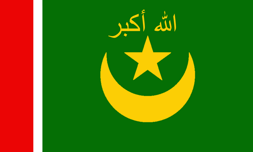 Flag of the "Islamic Republic of Rahmanland", a proposed state for the Rohingya people of Rakhine State, Myanmar. The flag first appeared in a document released online by Amir Ilham Kamil, a Rohingya émigré living in the United Kingdom, proclaiming the independence of "Rahmanland". The proclamation did not receive much recognition or support in the Rohingya diaspora community; the flag itself is rarely used by Rohingya organisations.